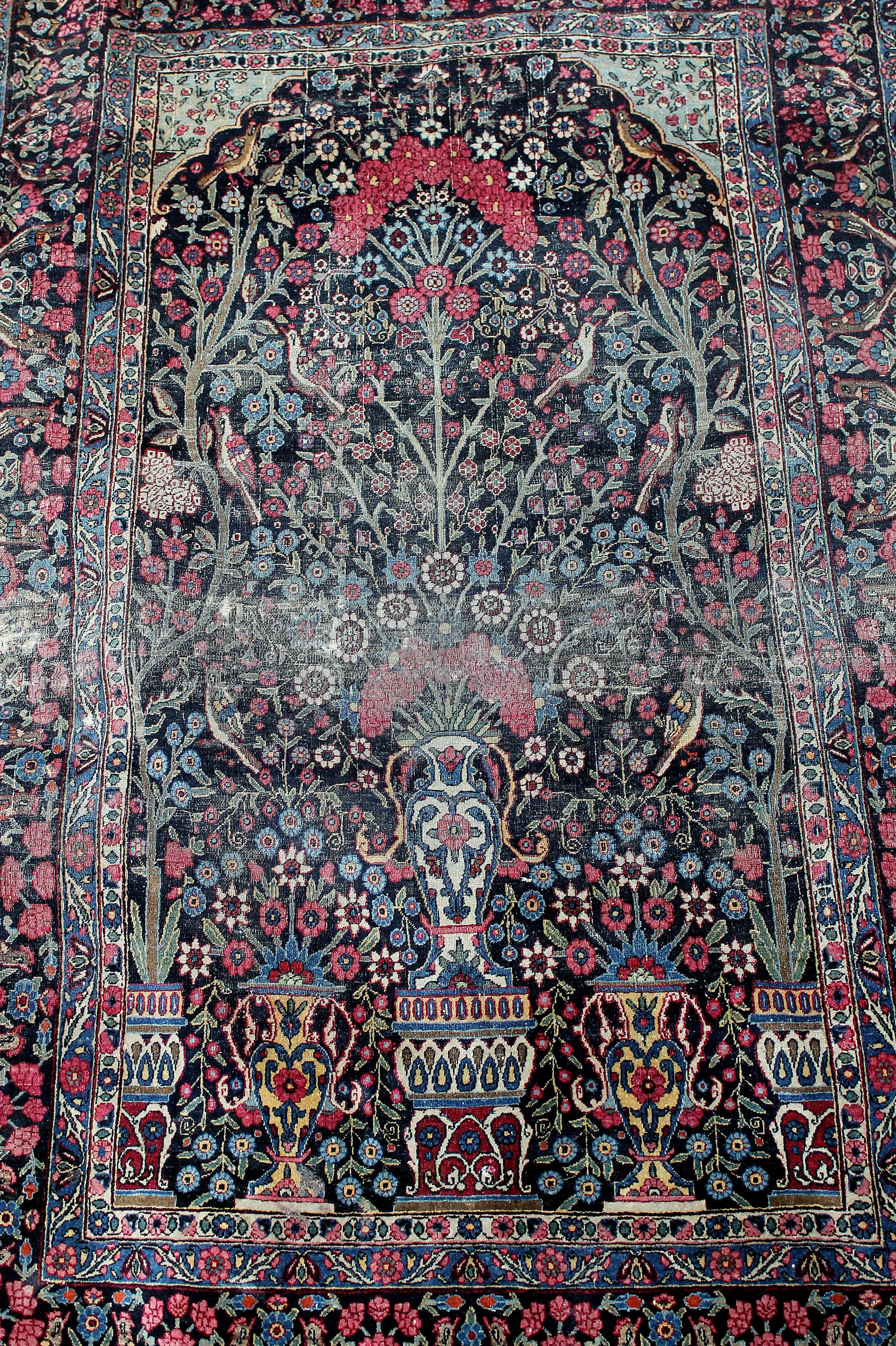 Persian-Kurdish border with vine and bright pendent flowers. A stripe commonly seen in this class is represented Bijars Carpet/ Prayer Rug Tree of life with Bird, Plant,Flower and Vases,a property of my asian art collection King muh (talk) 08:27, 9 September 2016 (UTC)